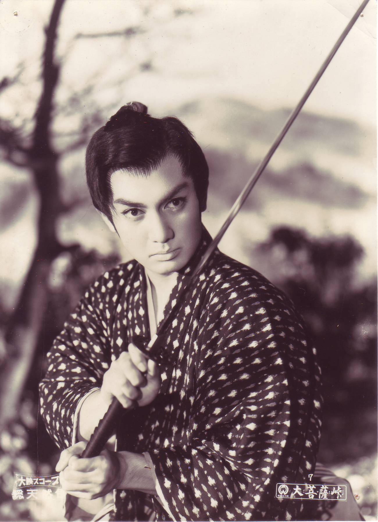 Kojiro Hongo (Japanese Actor). Studio Still of the 1960 Japanese film "Daibosatsu-toge" (Daiei Film).